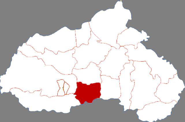 Location of Nanhe county in Xingtai City, China